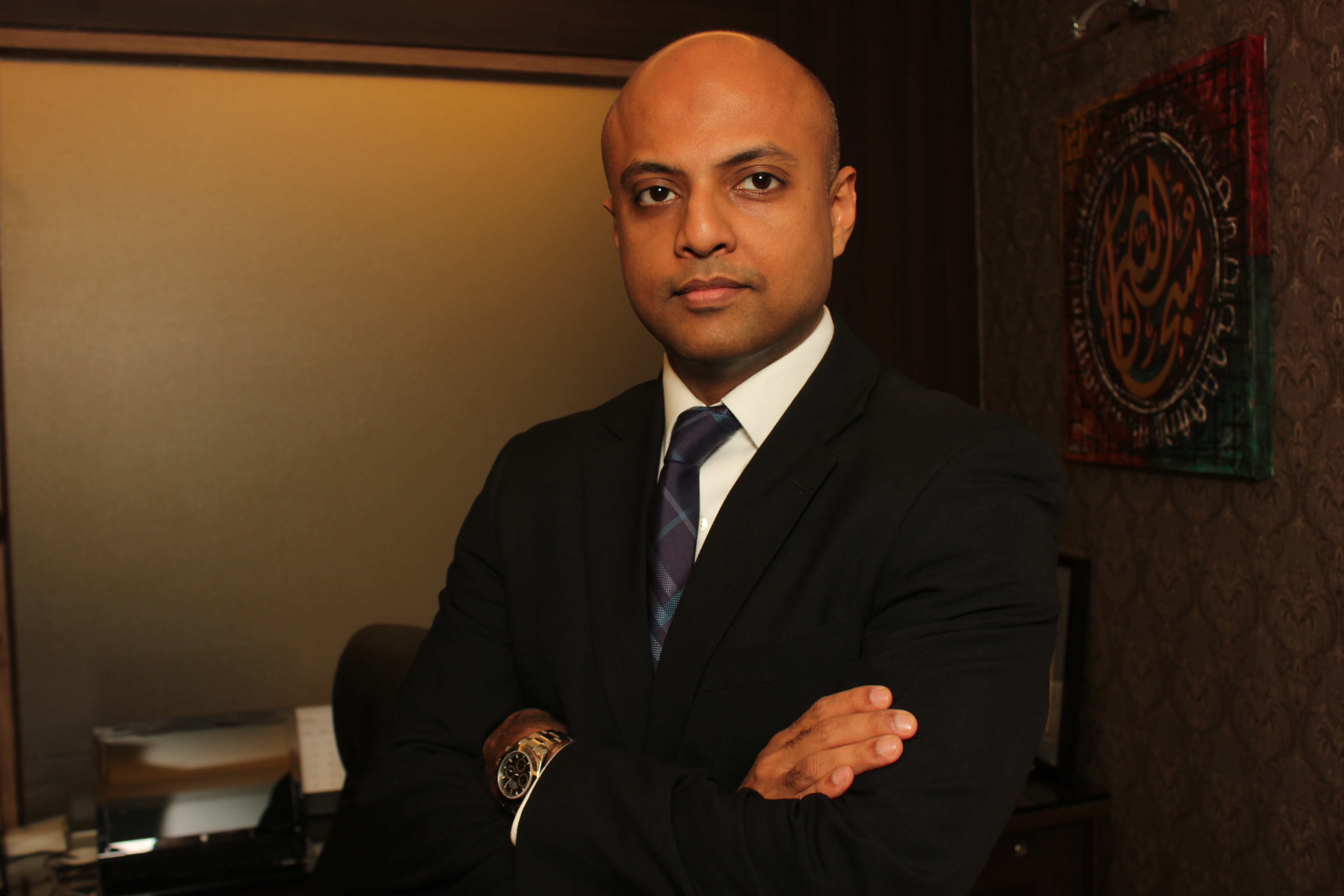 Zulfiquar Memon - mugshot